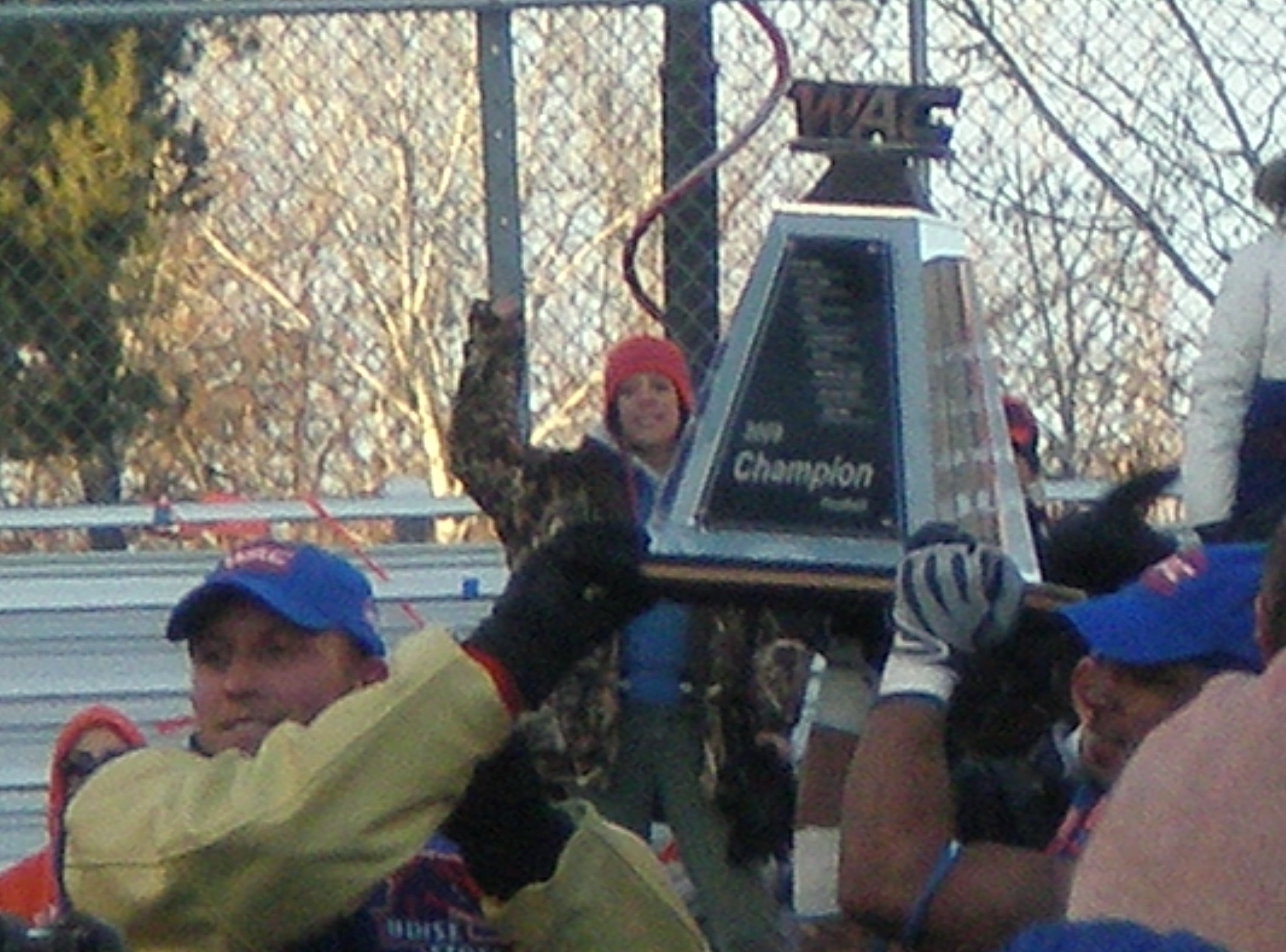 Boise State captains Rickie Brockel and Kyle Wilson holding the Western athletic conference championship trophy after their win vs New Mexico State at Bronco Stadium in Boise, ID on December 5, 2009.